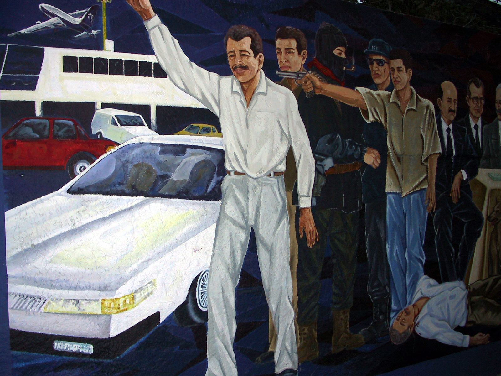 This mural is a portrait of contemporary Mexico, from the murder of presidential candidate Colosio (at the far left, earlier shot, to corrupt and reviled ex-president Carlos Salinas de Gortari, to El Papa himself, and finally the working class and families (What? Only men work? Sigh.) The death of Colosio, Salinas' hand picked replacement, is seen by some as the beginning of the end of the Institutional Revolutionary Party (PRI) as the exclusive ruling party in mexico for the first time since like the '20's or something. PRI lost the presidency to, sadly another right wing corporatist party called the National Action Party (PAN). Breaking the lock PRI had on the country forever is but one recent, among the many steps Mexican people have taken in the ongoing struggle against the tiny oligarchy of hyper-rich business people that continue to bleed their country. Check out these links for more on this bit of Mexican history (a totally fascinating subject). Colosio Subcomandante Marcos Carlos Salinas de Gortari Wish I had a panorama of it. Feel free.